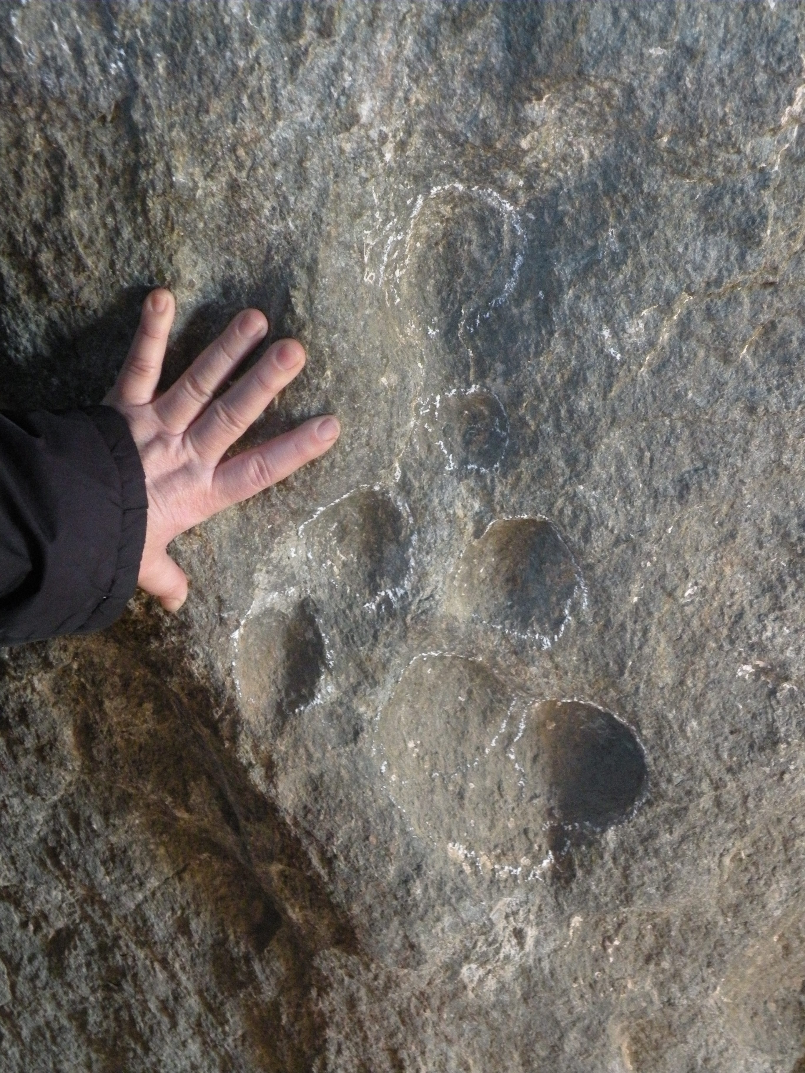 Insculture in the dolmen de la Creu d'en Cobertella